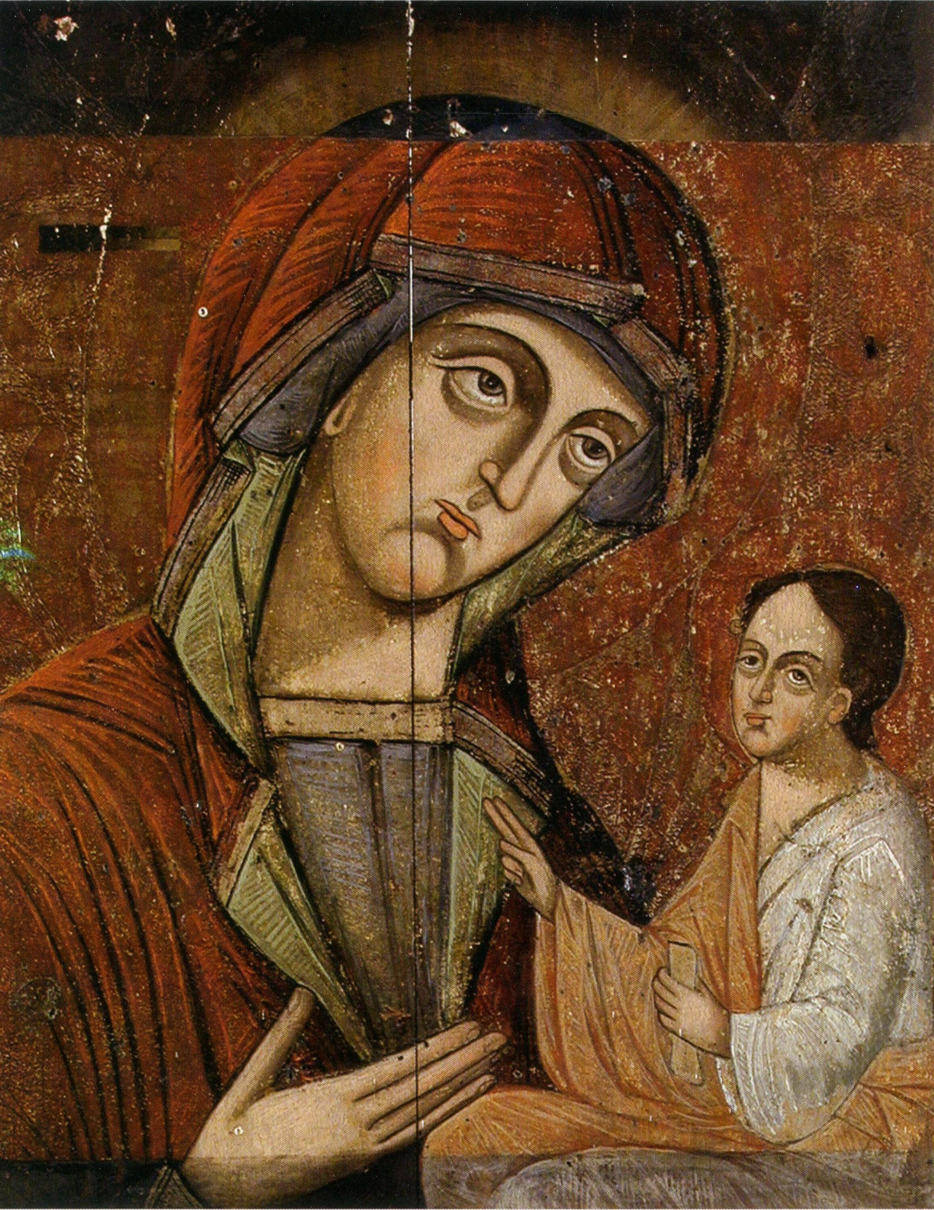 THE HOLY VIRGIN HODIGITRIA OF JERUSALEM. Late 16th c. Wood, tempera, oil. St. Mikita's Church, Zdzitava, Zhabinka district, Brest region.